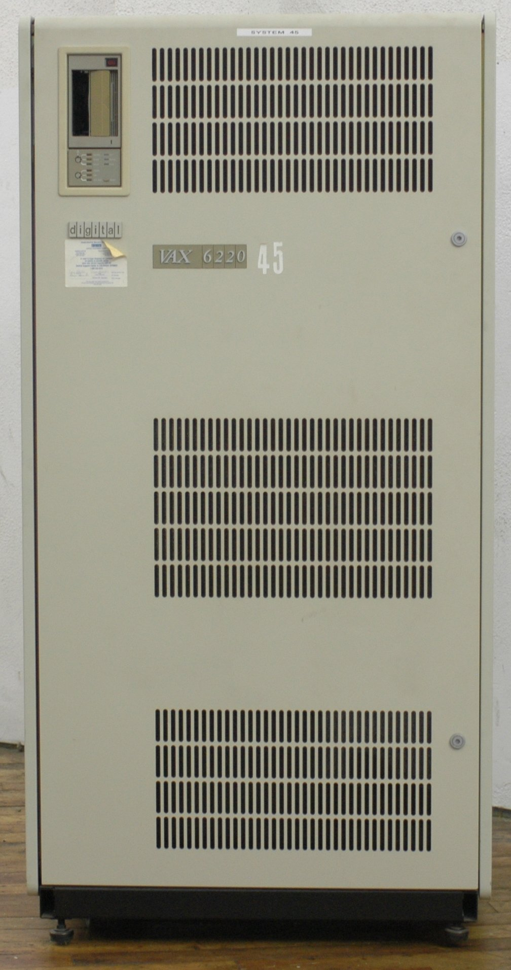 VAX 6220 Minicomputer. From the collection of the RCS/RI.